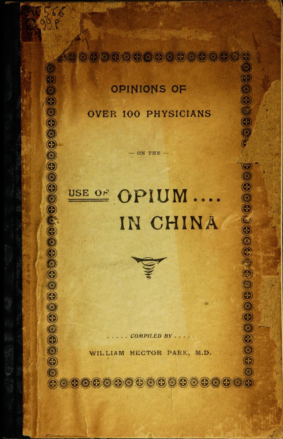 Opinions of Over 100 Physicians on the Use of Opium in China